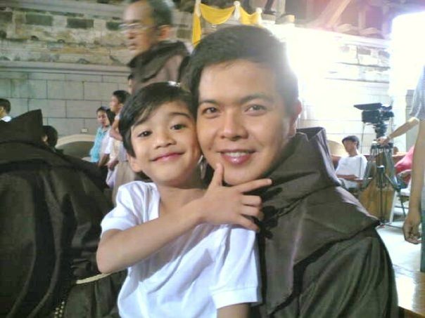 Andre Tiangco (as Father George) with Zaijian Jaranilla (as Santino) on the set of the ABS-CBN hit series "May Bukas Pa" (There's Still Tomorrow).